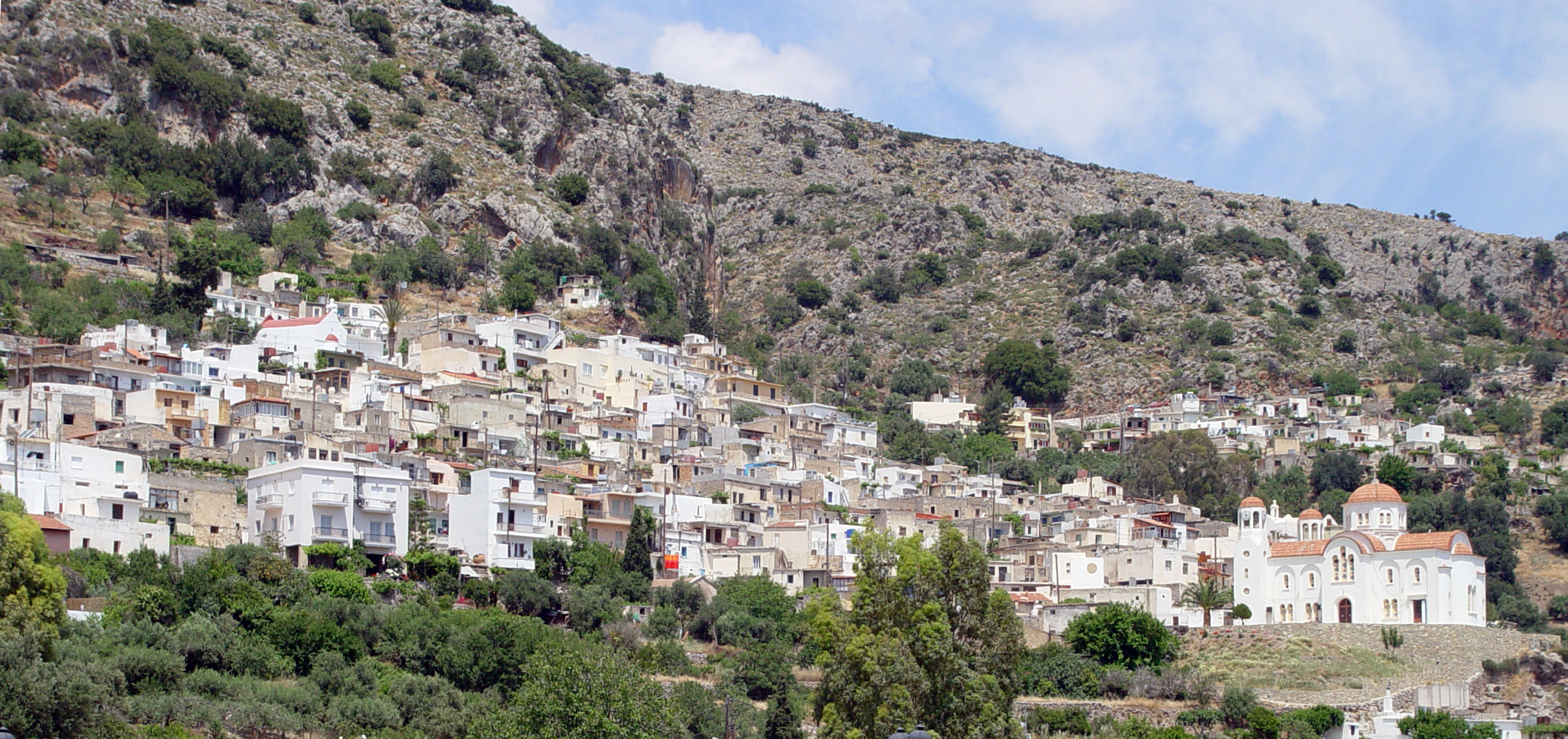 Greece, Crete, village of Kritsa